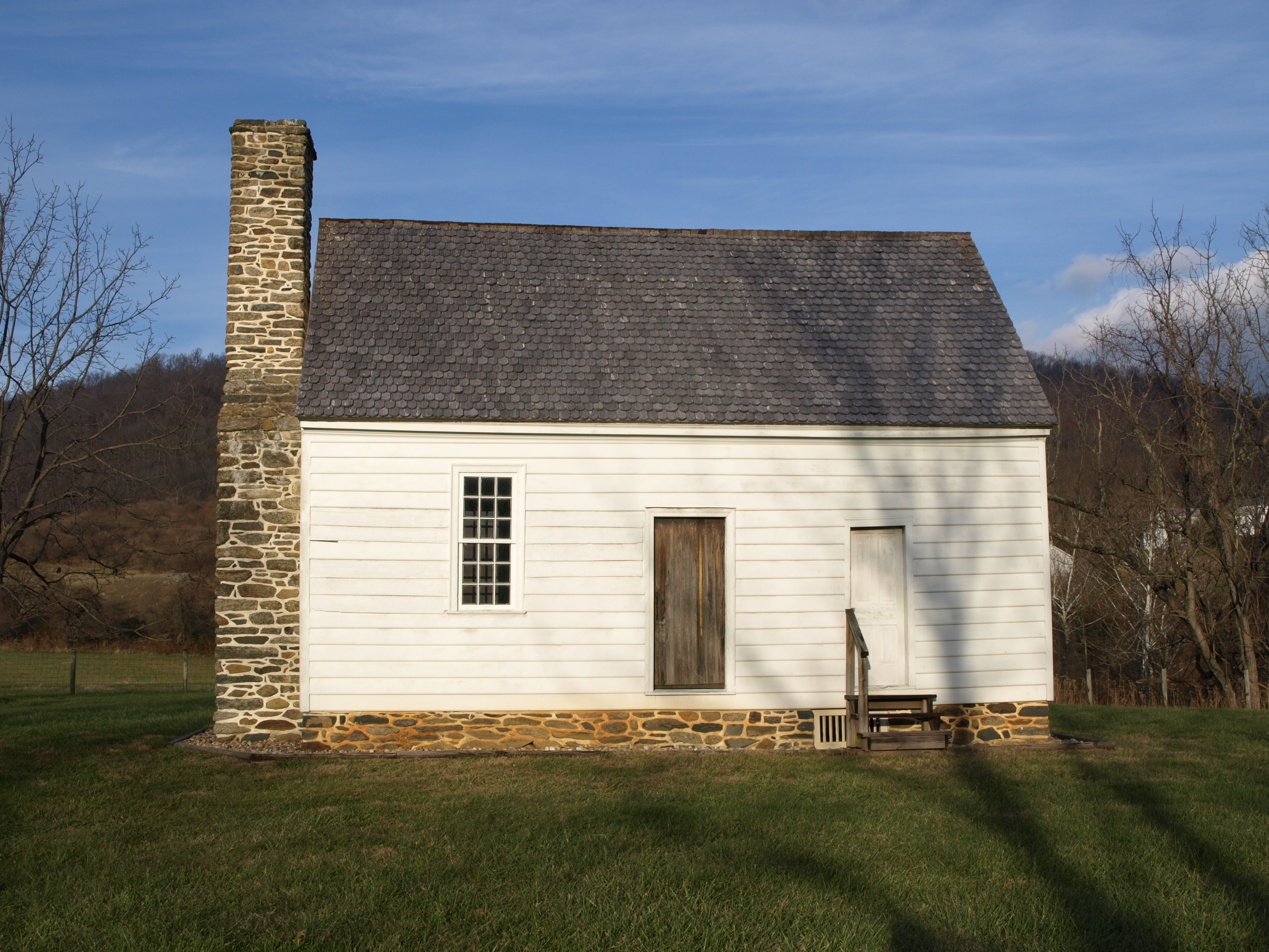 View of The Hollow House, Markham, VA, childhood home of Chief Justice John Marshall.